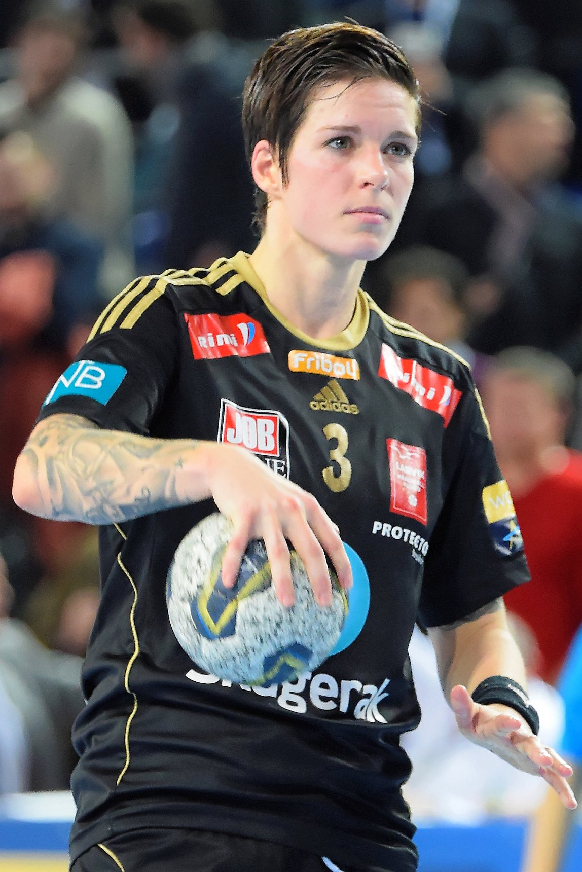 Anja Hammerseng-Edin - EHF Champion's League, Metz Handball / Larvik HK - 15 november 2014.